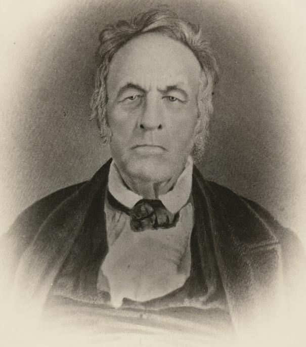 Ezra Meech, Congressman from Vermont